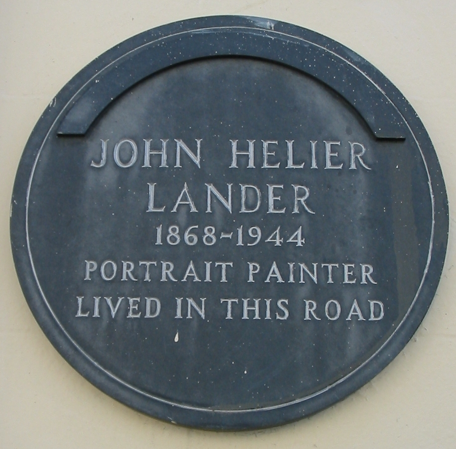 Plaque on house of Jersey artist, John Helier Lander (who changed his name to John St Helier Lander). Belmont Road, St Helier, Jersey